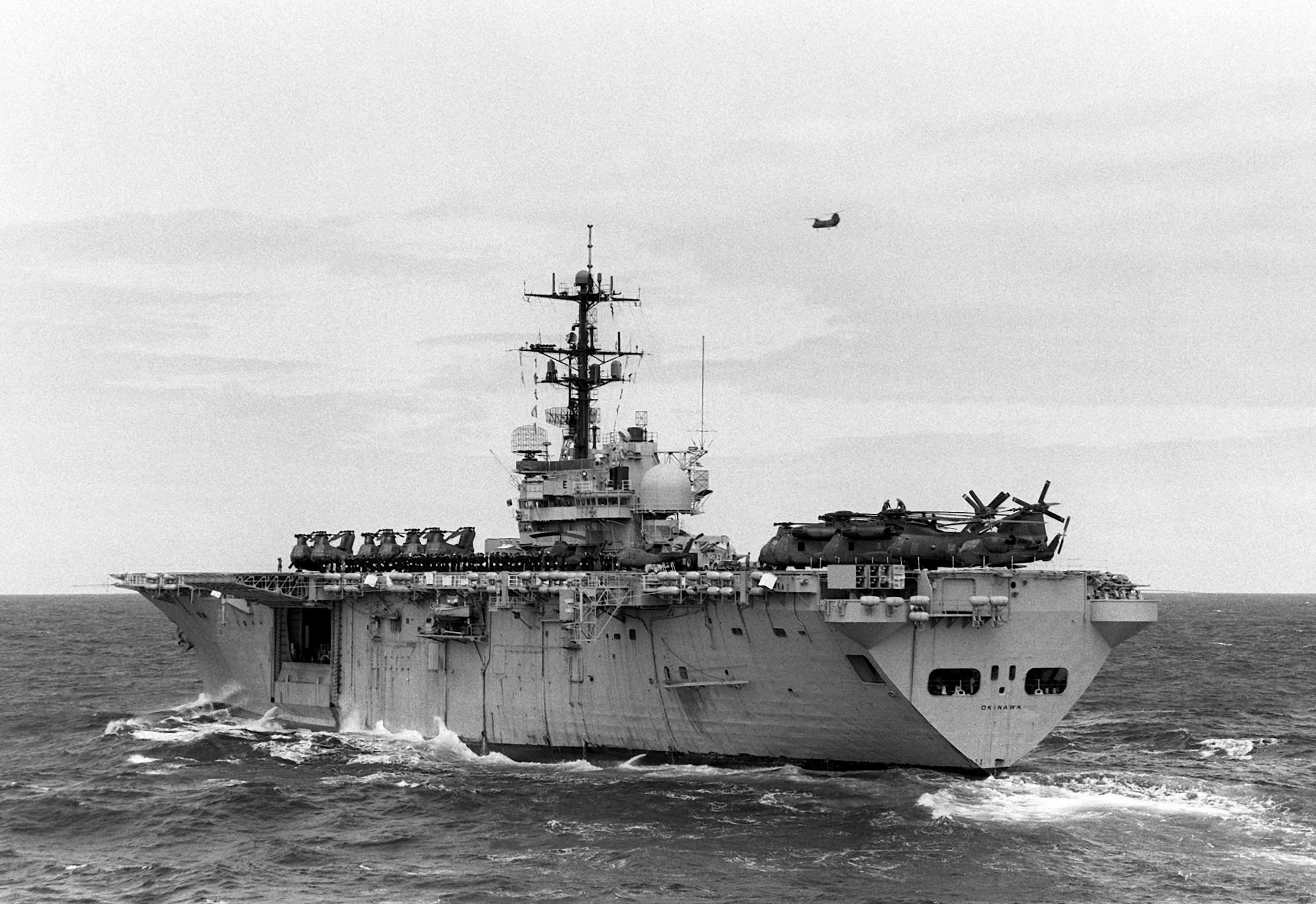 The U.S. Navy amphibious assault ship USS Okinawa (LPH-3) underway in 1981. Okinawa was the home of Battalion Landing Team, 2nd Battalion, 3rd Marines and Marine Medium Helicopter Squadron 262 during their part in the 31st Marine Amphibious Unit's Kangaroo 4 (1981) exercise.